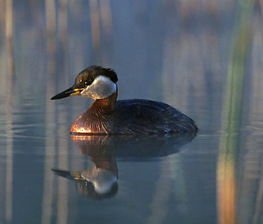 Red-necked Grebe